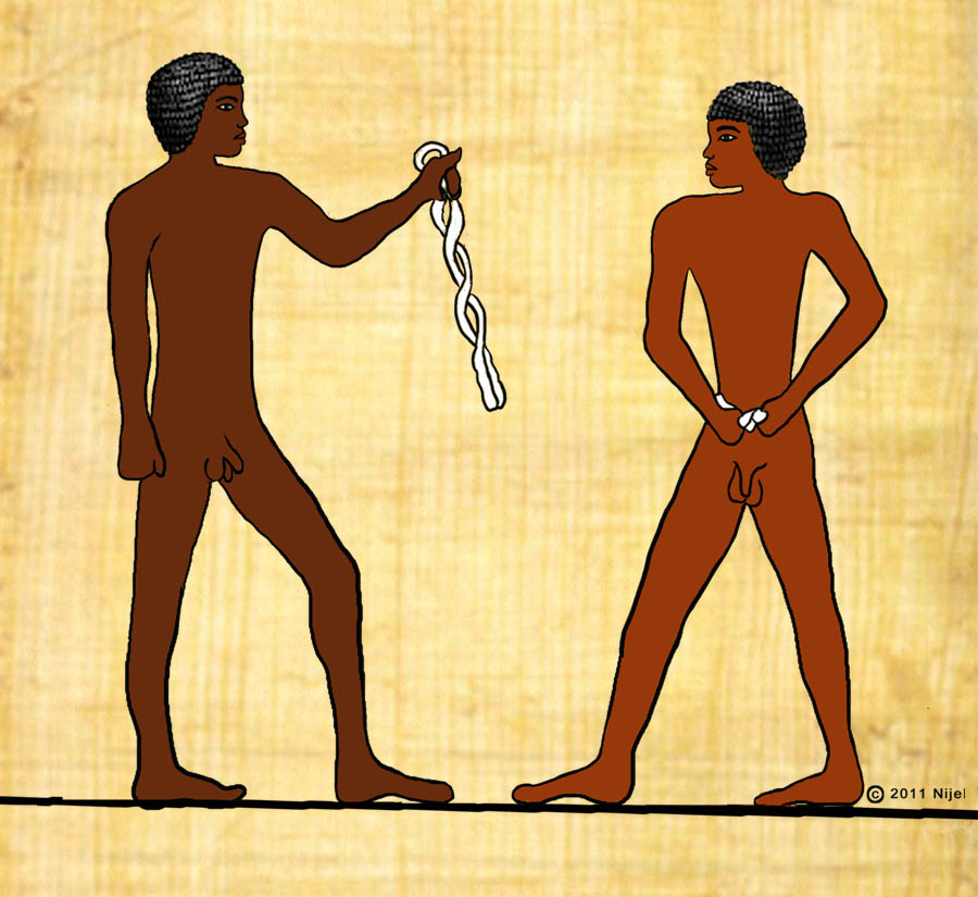 Nuba wrestling arts depicted in Khety's tomb, East wall, Row 4, Figure 90, Beni Hasan, Egypt. First recorded use of a belt in martial arts from tomb of Khety, 11th Century Egypt, at Beni Hasan. Illustrated by Nijel Binns.